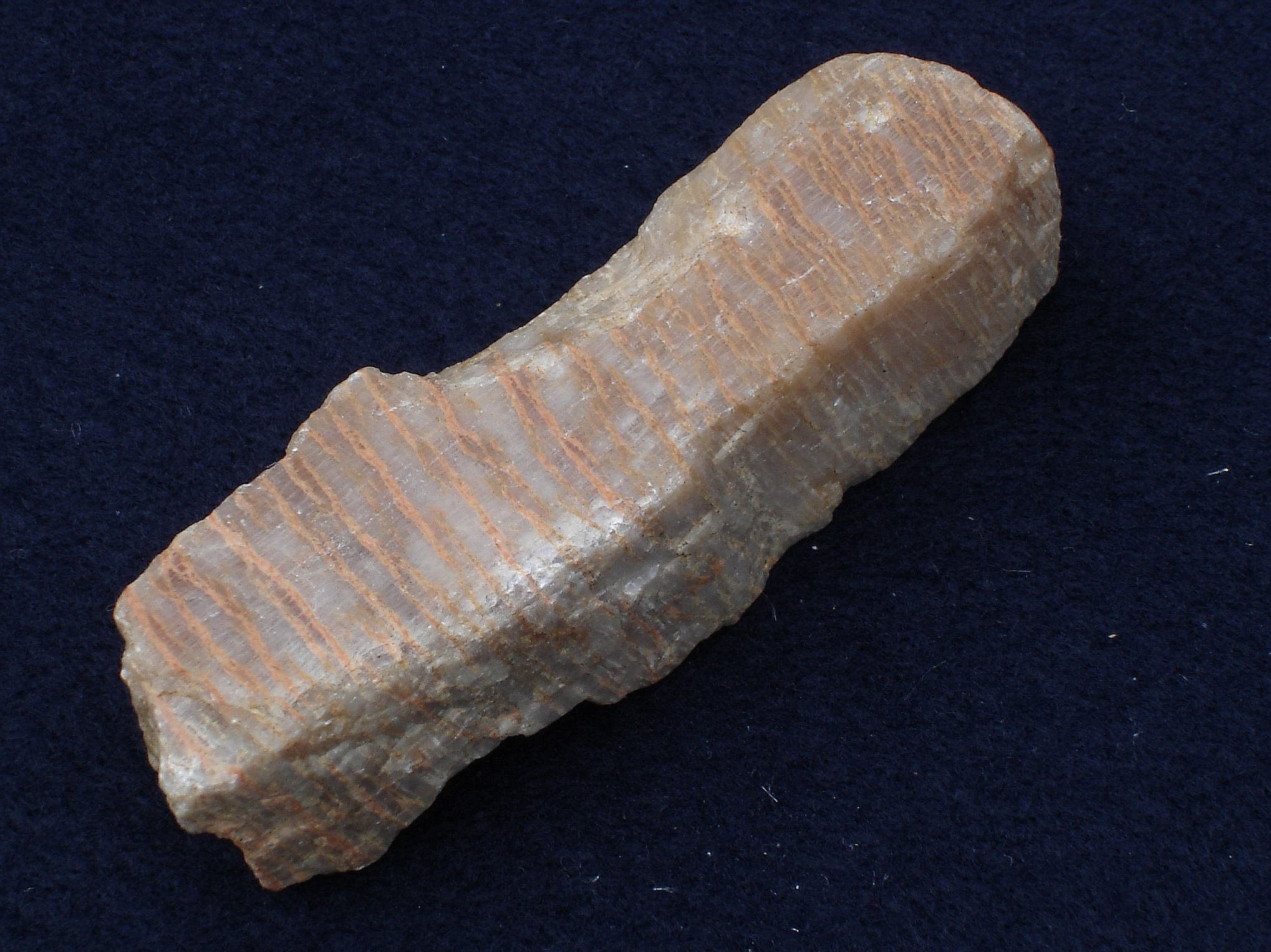 An antiperthitic intergrowth of K-feldspar (the veinlets) in the Na-feldspar (this hand specimem has 7cm long and 3cm width)